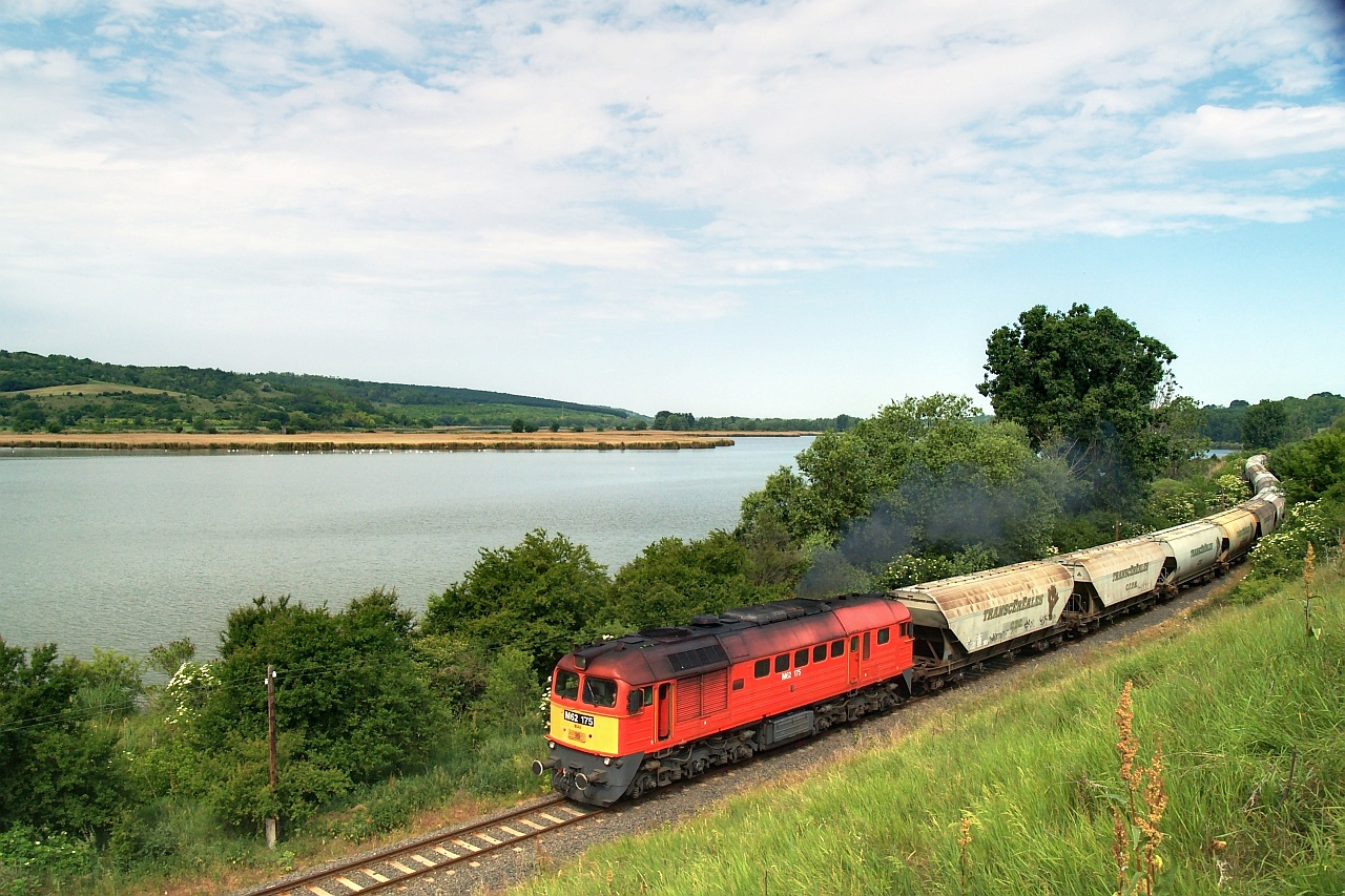 The MÁV-TR M62-175 with a grain train near Pacsmag on the freight-only branch railway between Keszőhidegkút-Gyönk and Tamási, Hungary.